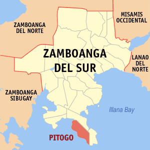 Map of Zamboanga del Sur showing the location of Pitogo